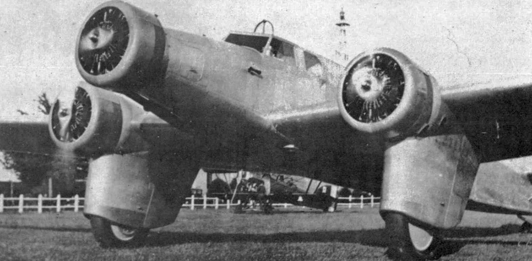 Dewoitine D.332 photo from NACA-AC-185